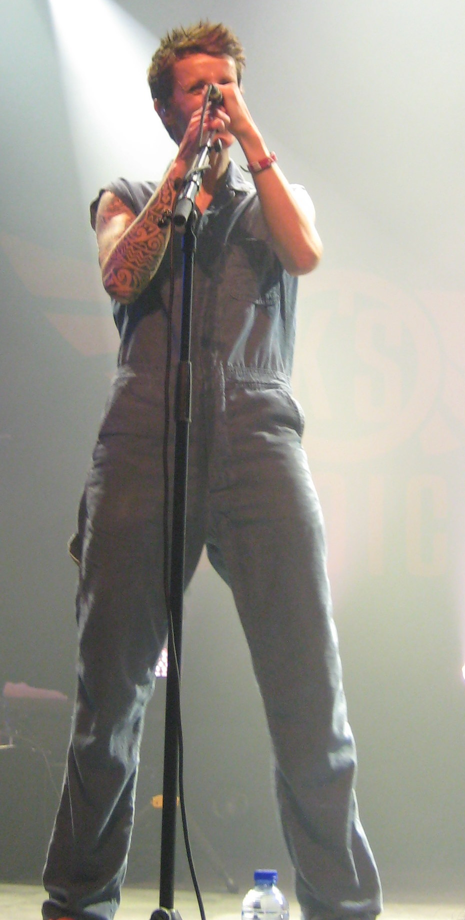 Sarah Bettens of K's Choice